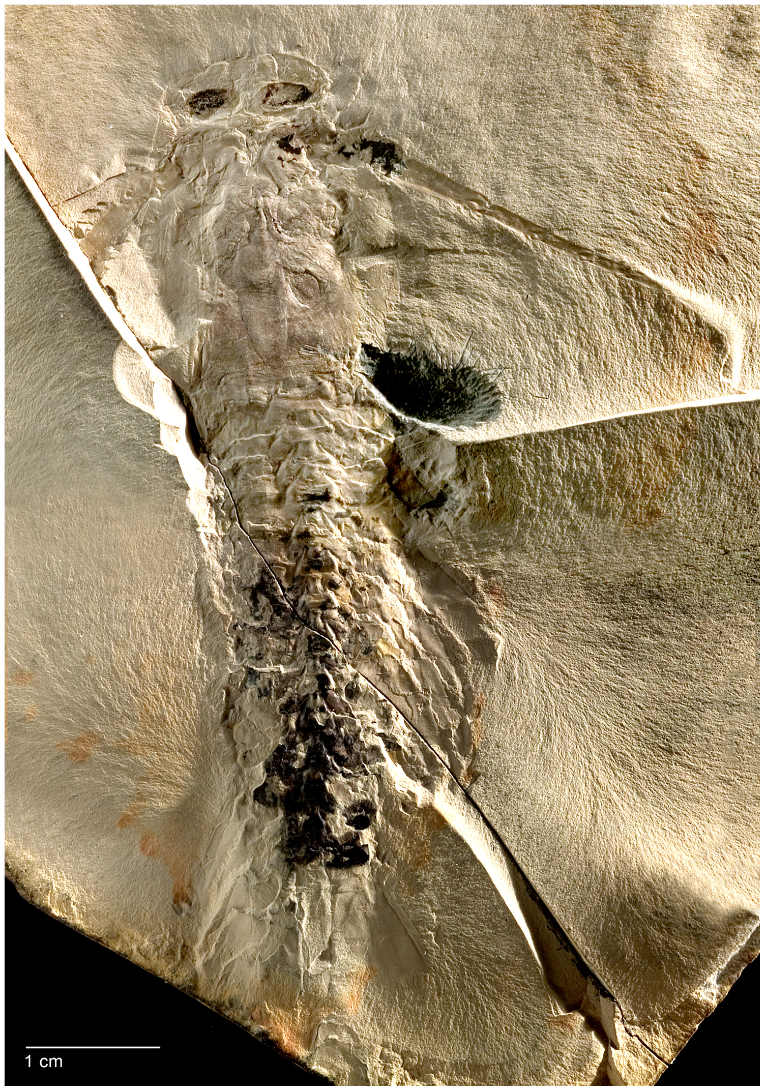 Holotype of Tesnusocaris goldichi (Remipedia, Enantiopoda).